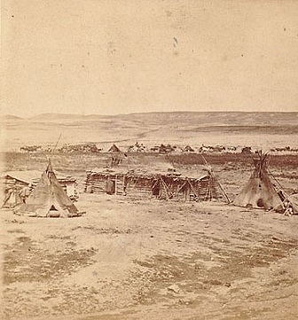 Charles Larpenteur's short-lived trading post. It was located adjacent to the Fort Union–Fort Benton road and several hundred yards west Fort Union Trading Post. This road, which visitors can still see traces of today, followed a traditional Assiniboine war path into enemy territories to the west.